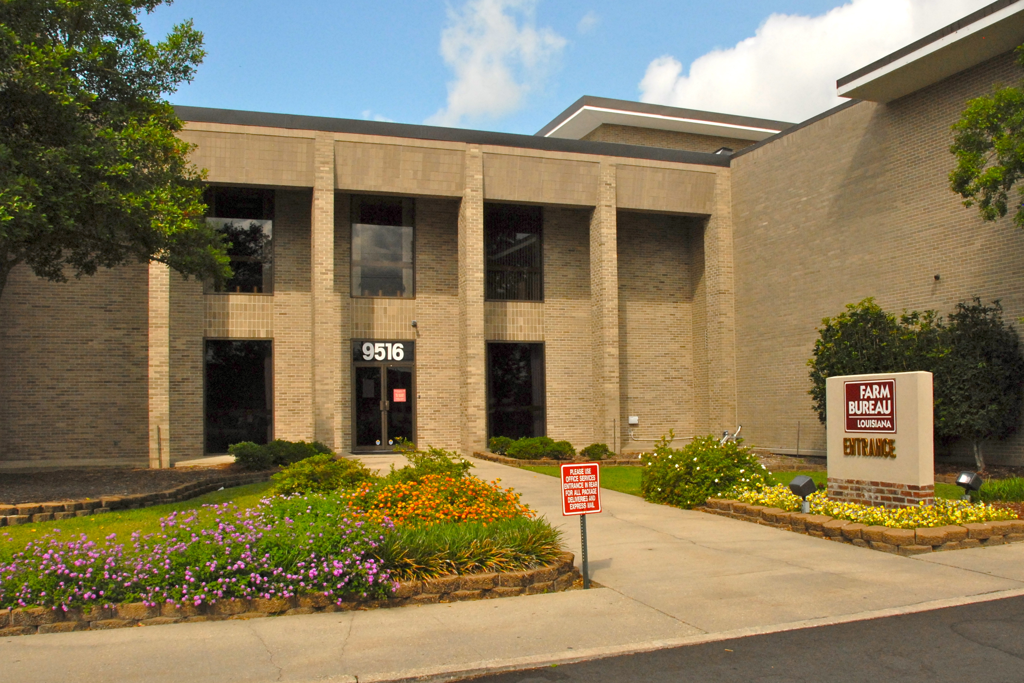 The Louisiana Farm Bureau Federation, which produces This Week in Louisiana Agriculture, took this picture for use on the Wikipedia page.